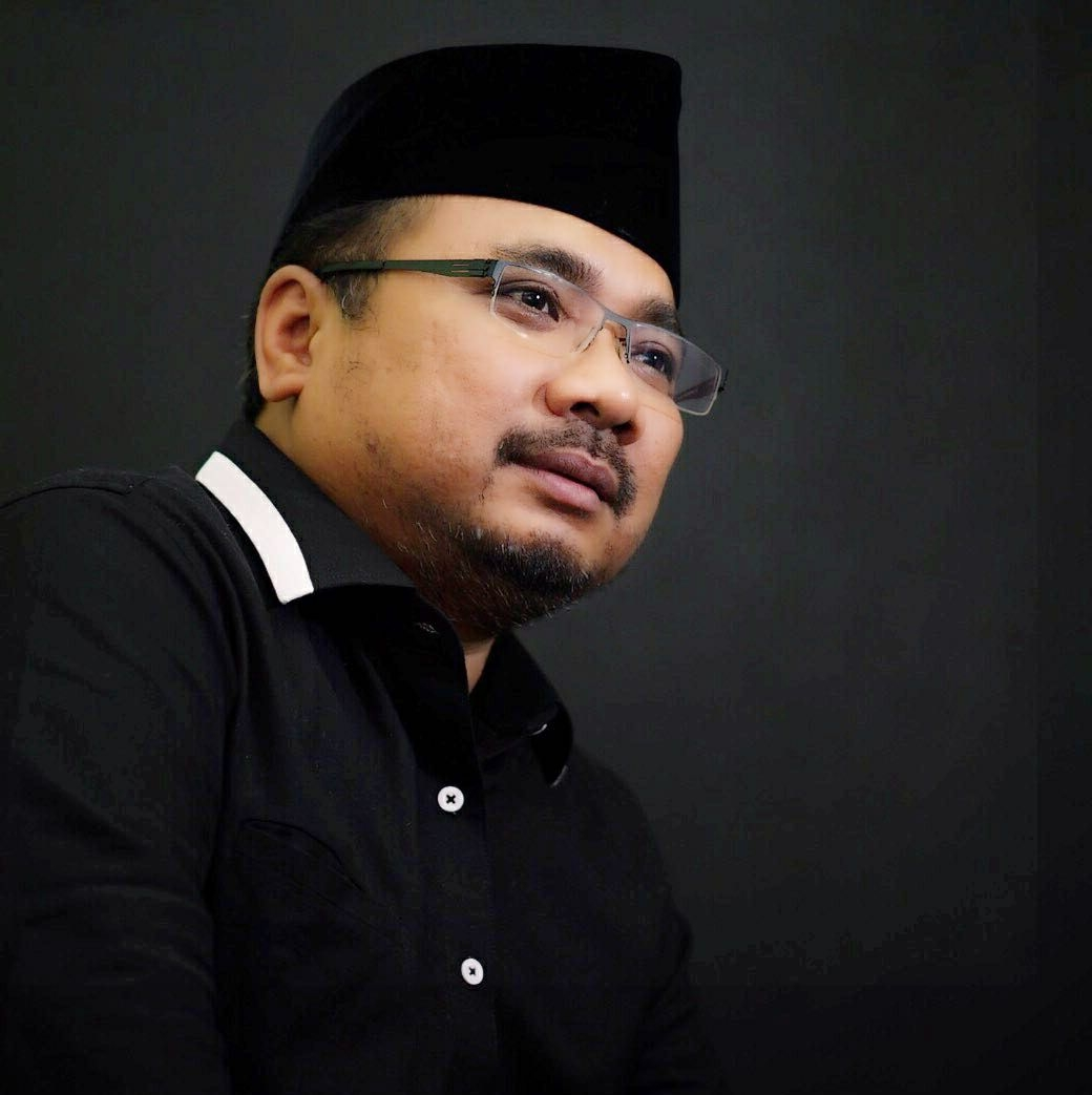 foto gus yaqut